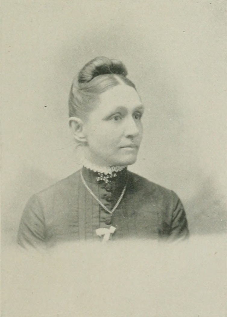 A woman of the century.djvu